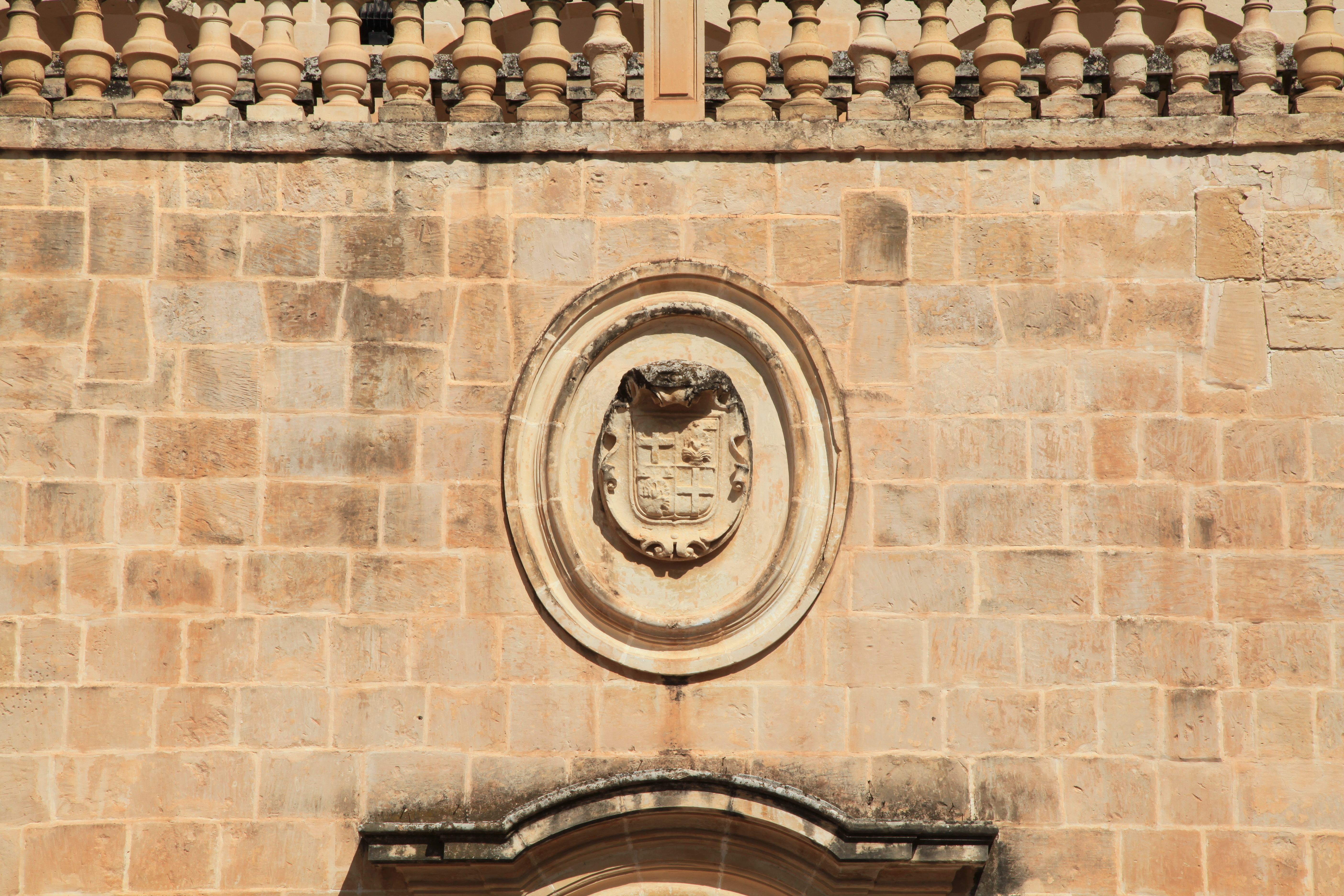 San Anton Palace, Triq San Anton / San Anton Gardens in Attard, Malta